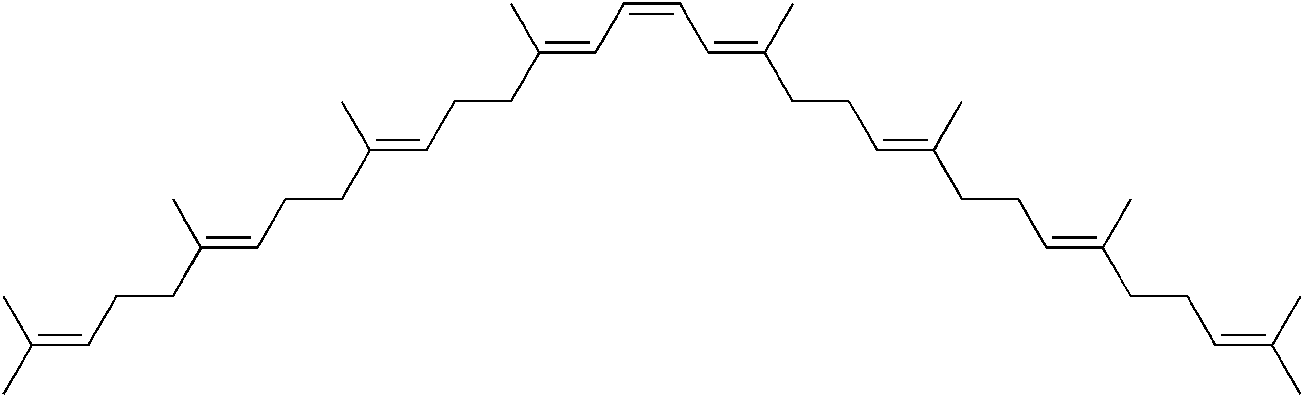 chemical structure of phytoene